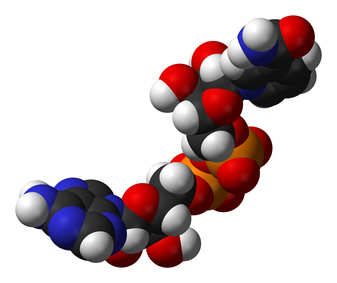 Space-filling model of NAD+, based on x-ray diffraction data from PDB 2FM3